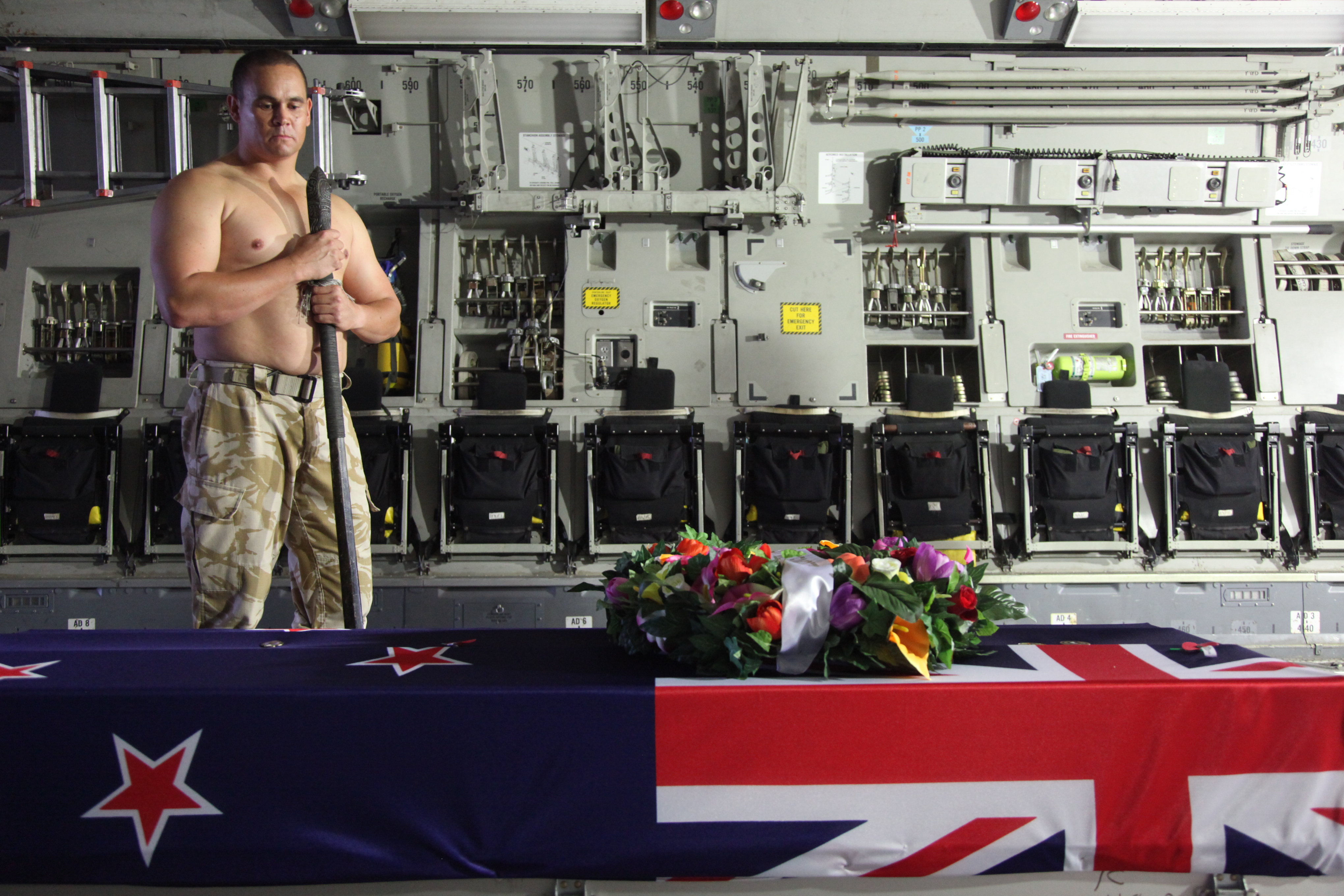 100806-A-IP583-082A New Zealand military service member stops to pay his respects at a memorial ceremony honoring New Zealand Army Lt. Timothy O'Donnell, with the Royal New Zealand Infantry Regiment, at Bagram Airfield, Afghanistan, Aug. 6, 2010. O'Donnell was killed in action Aug. 4, 2010. (U.S. Army photo by Spc. Bao Huynh/Released)